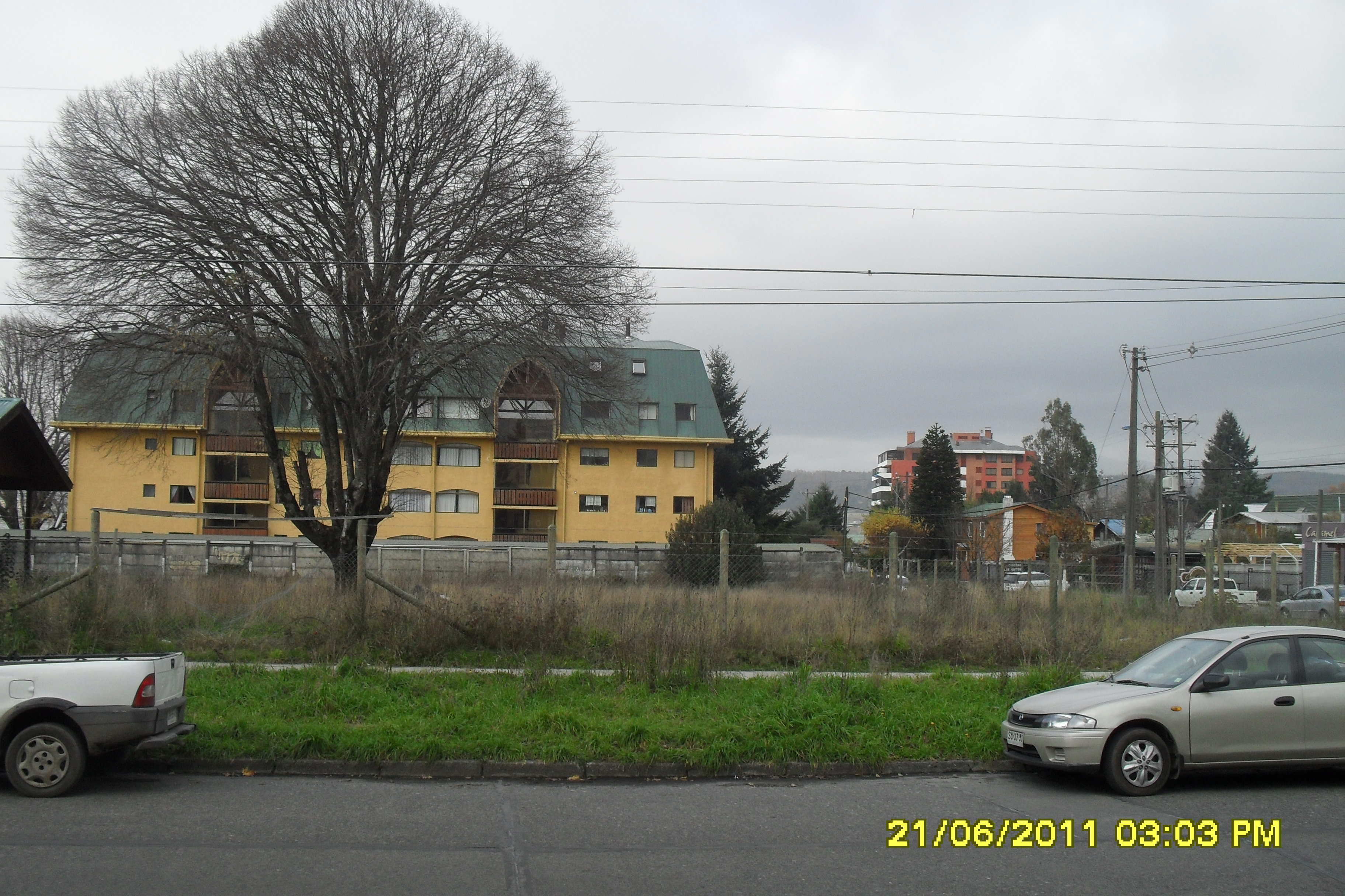 Edificios de Villarrica